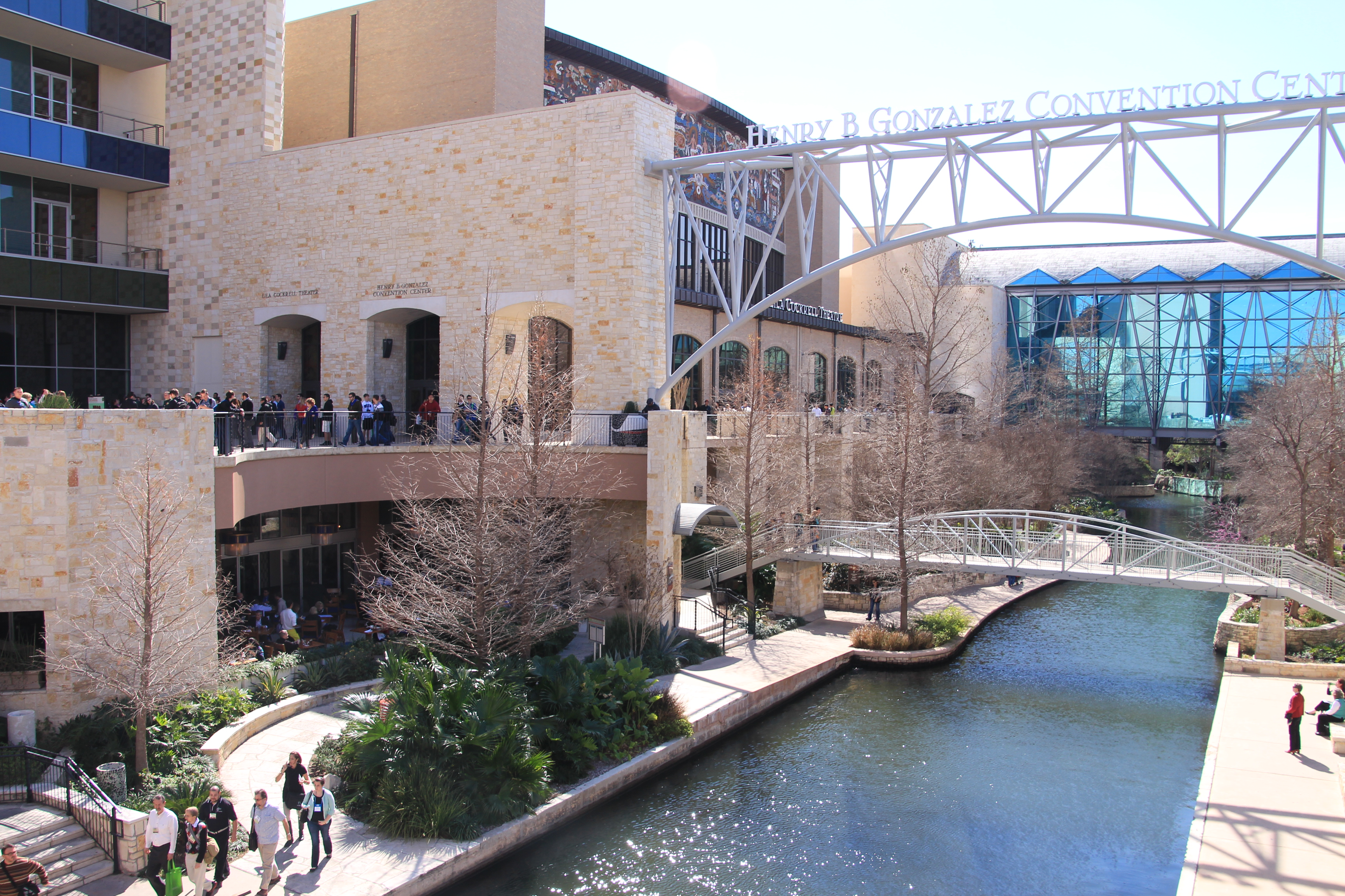 The Henry B. Gonzalez Convention Center in San Antonio, Texas.